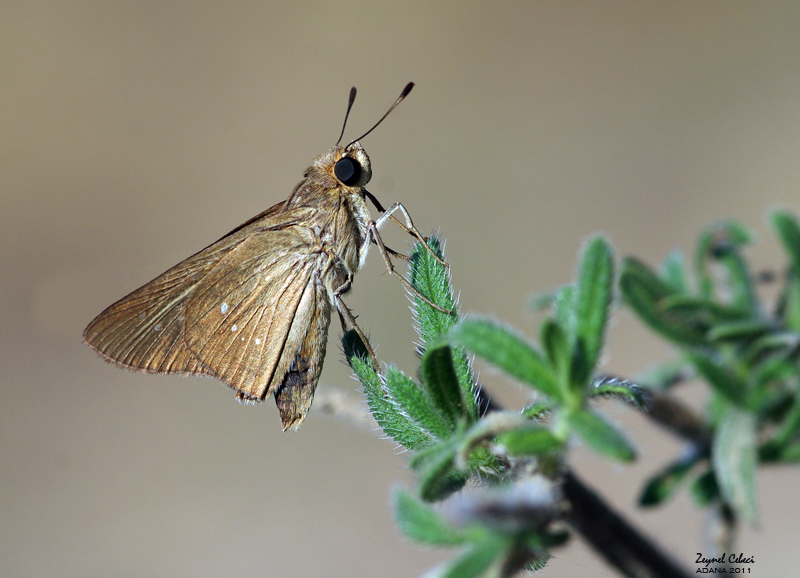 Wing underside view of a millet skipper (Pelopidas thrax). Adana, Turkey.